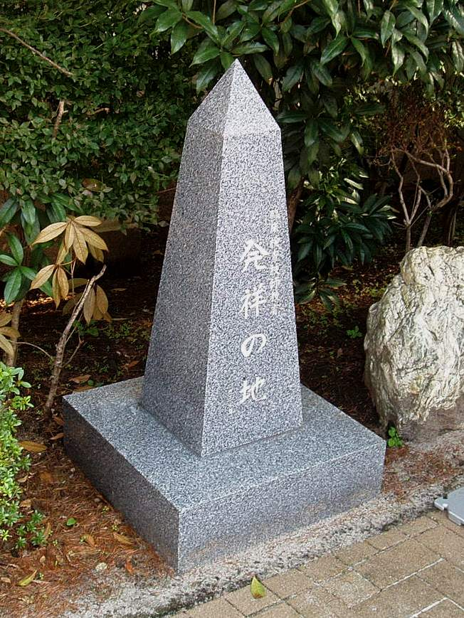 Monument of the Birthplace of Clinical Laboratory Science in Japan, Nitobe Bunka College (formerly Tokyo Bunka Junior College). Located in Nakano-ku, Tokyo, Japan.